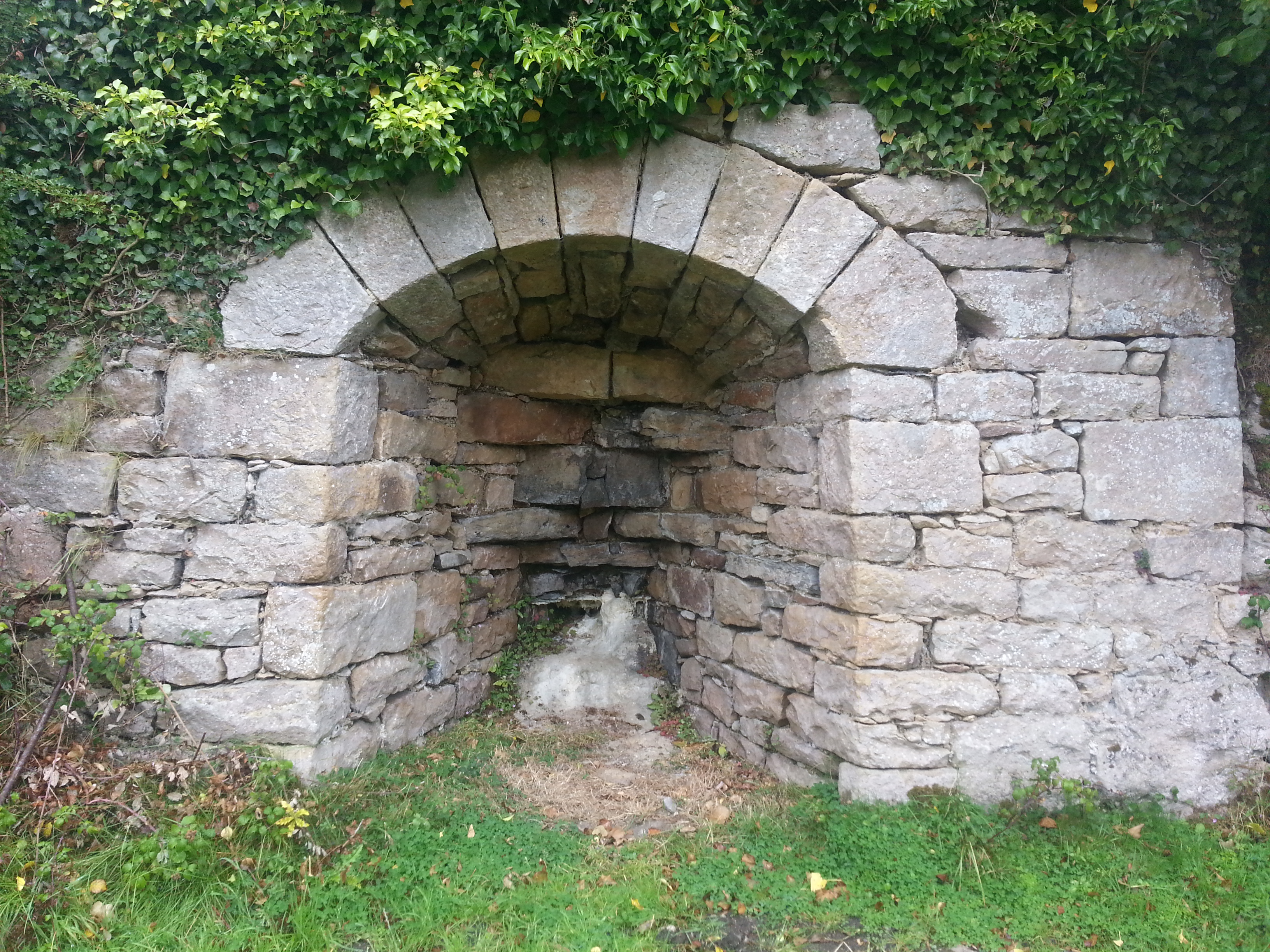 Tobar Naofa